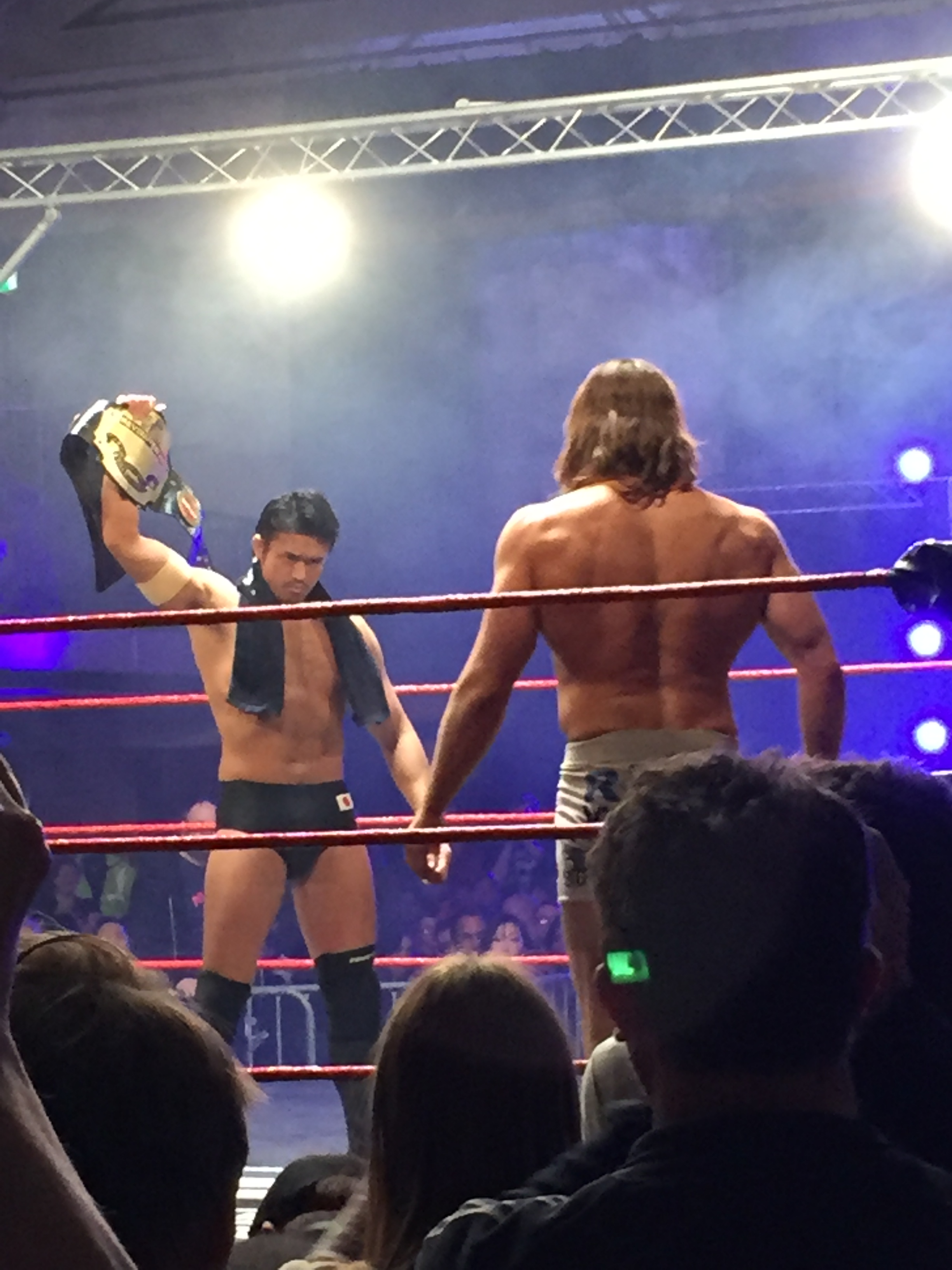 Katsuyori Shibata staring down Matt Riddle